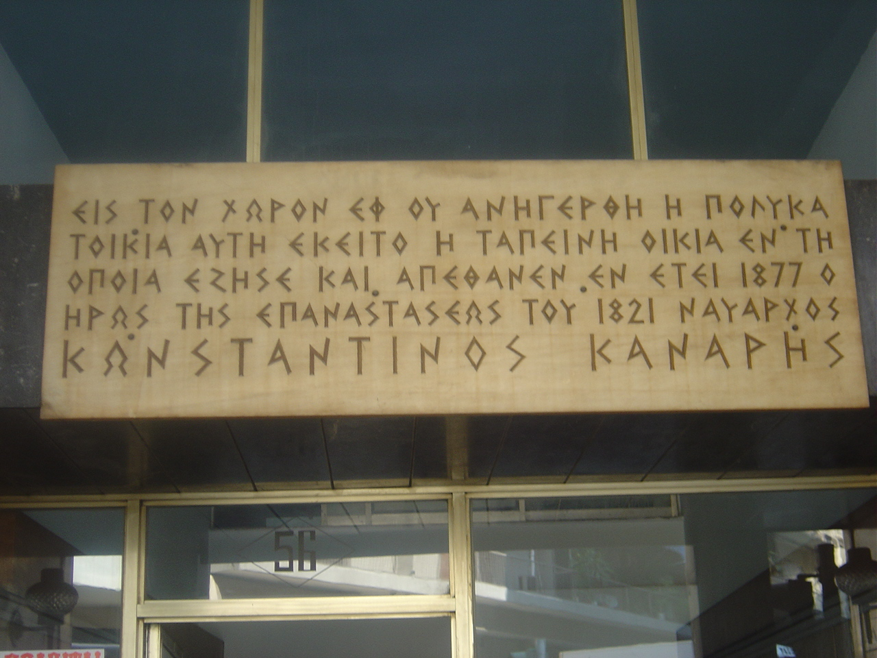 Label in the house built on Kanris old house